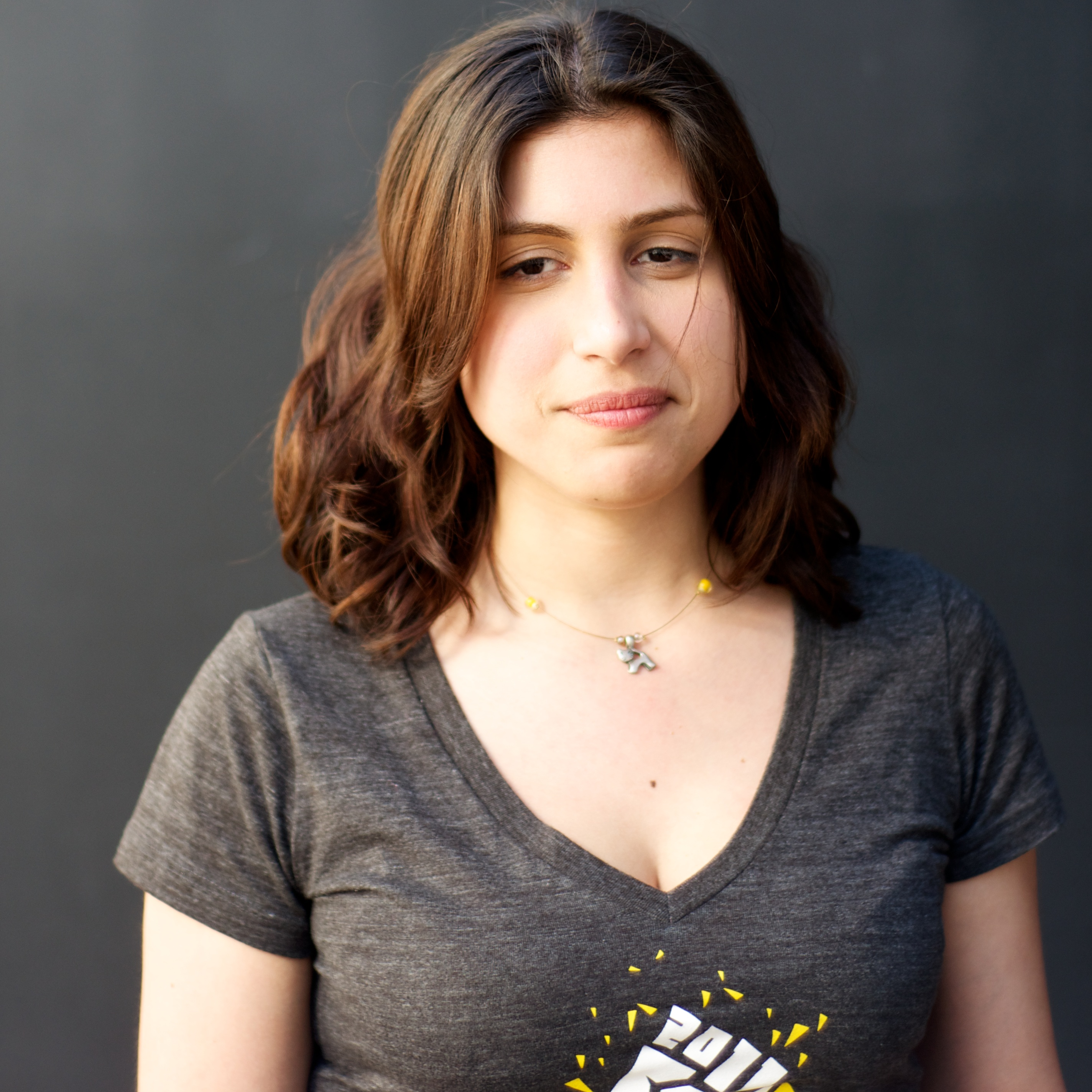 A headshot of Lea Verou.